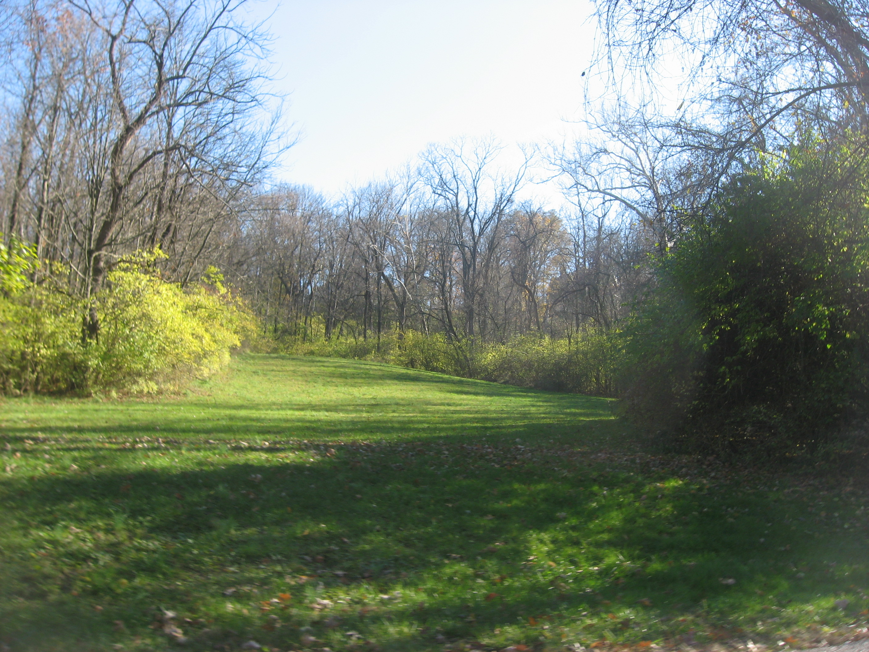 Looking southeast from Section Road at the Kincaid Road intersection in Amberley, Ohio, United States. In the woods at the top of the hill is the Benham Mound, a burial mound built by the Hopewell culture and a significant archaeological site. It is listed on the National Register of Historic Places.